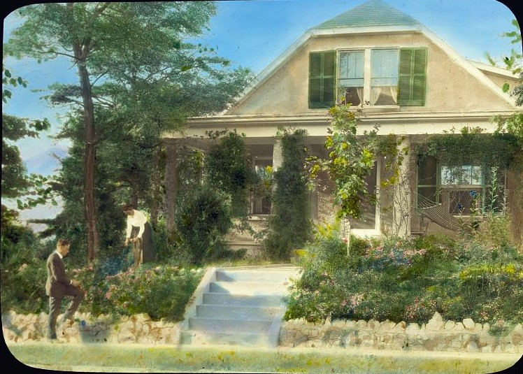 About this Item Title [Edgar Theodore Wherry house, 3331 Stephenson Place, Chevy Chase, Washington, D.C. Edgar and Gertrude Wherry in their native plant garden] Contributor Names Johnston, Frances Benjamin, 1864-1952, photographer Created / Published [1921 July] Subject Headings - Gardens--Maryland--Chevy Chase--1920-1930 - Houses--Maryland--Chevy Chase--1920-1930 - Couples--Maryland--Chevy Chase--1920-1930 Format Headings Lantern slide--Hand-colored--1920-1930. Notes - Site History. House: Built 1914. Landscape: Edgar Theodore Wherry, and, Gertrude Smith (Mrs. Edgar Theodore) Wherry. Other: Frances Benjamin Johnston referred to this as the "Wild Garden." Not extant. - On slide (handwritten): "Dr. E.T. Wherry." Also, blind embossed stamp for "Frances B. Johnston, New York." - Slide for lecturing on city and suburban gardens. - Title, date, and subject information provided by Sam Watters, 2011. - Forms part of: Garden and historic house lecture series in the Frances Benjamin Johnston Collection (Library of Congress). - Published in Gardens for a Beautiful America / Sam Watters. New York: Acanthus Press, 2012. Plate 190. - Penciled on slide (not by FBJ?): # 162. Medium 1 photograph : glass lantern slide, hand-colored ; 3.25 x 4 in. Call Number/Physical Location LC-J717-X107- 23 [P&P] Repository Library of Congress Prints and Photographs Division Washington, D.C. 20540 USA Digital Id ppmsca 16667 //hdl.loc.gov/loc.pnp/ppmsca.16667 Library of Congress Control Number 2008675967 Reproduction Number LC-DIG-ppmsca-16667 (digital file from original item) Rights Advisory No known restrictions on publication. Online Format image Description 1 photograph : glass lantern slide, hand-colored ; 3.25 x 4 in. LCCN Permalink